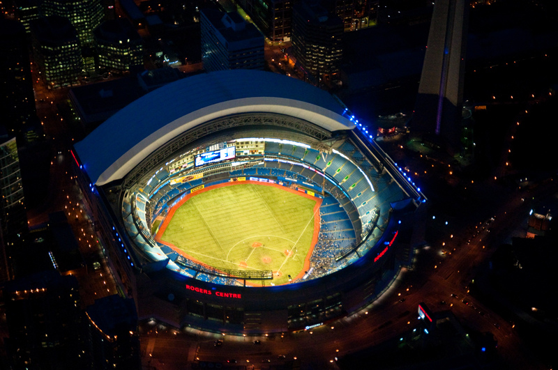 Aerial view of the Rogers Centre, Toronto, Ontario, Canada.